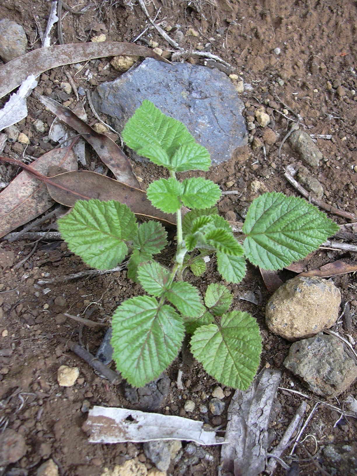 Rubus niveus f. a (seedling). Location: Maui, Kula